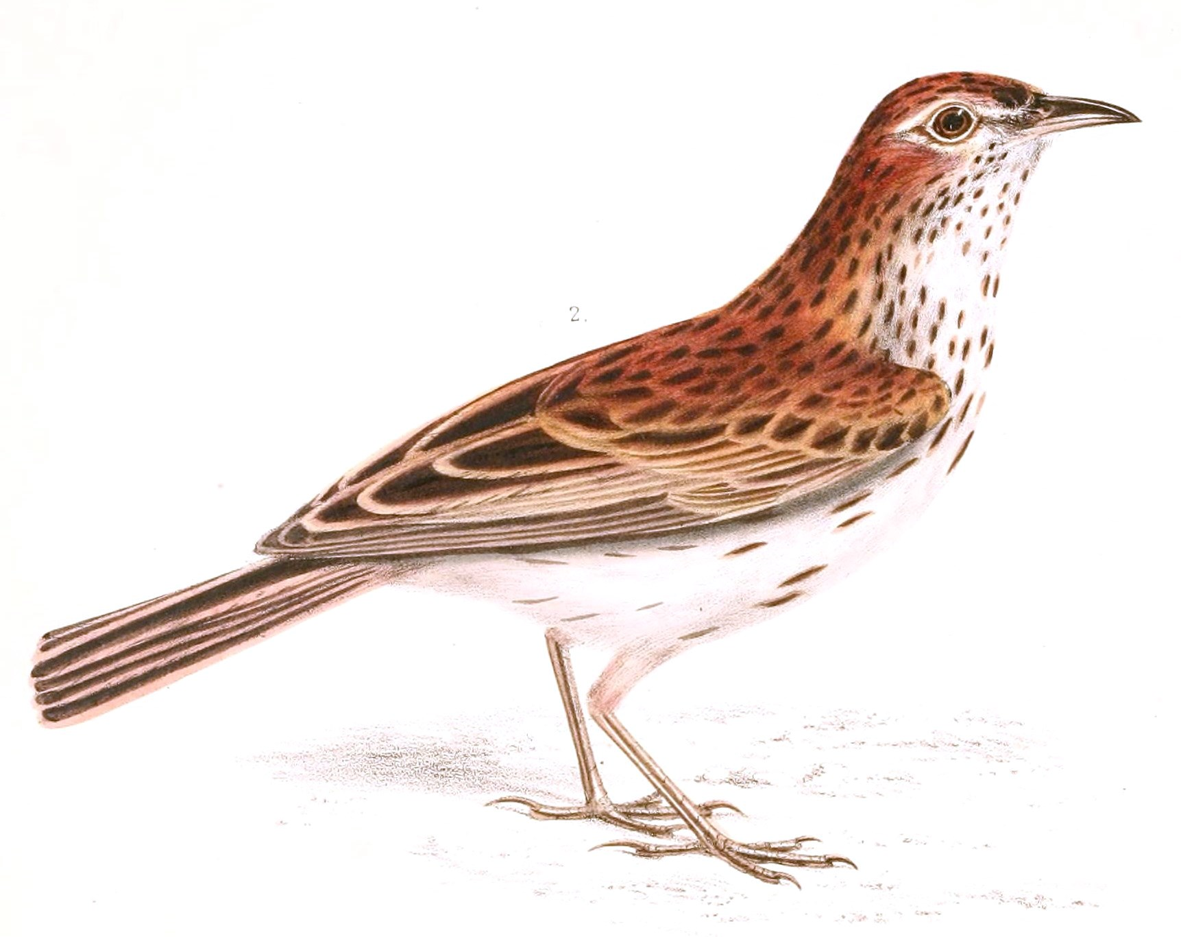 « Alauda lagepa » = Calendulauda albescens guttata (subspecies of Karoo Lark) - male